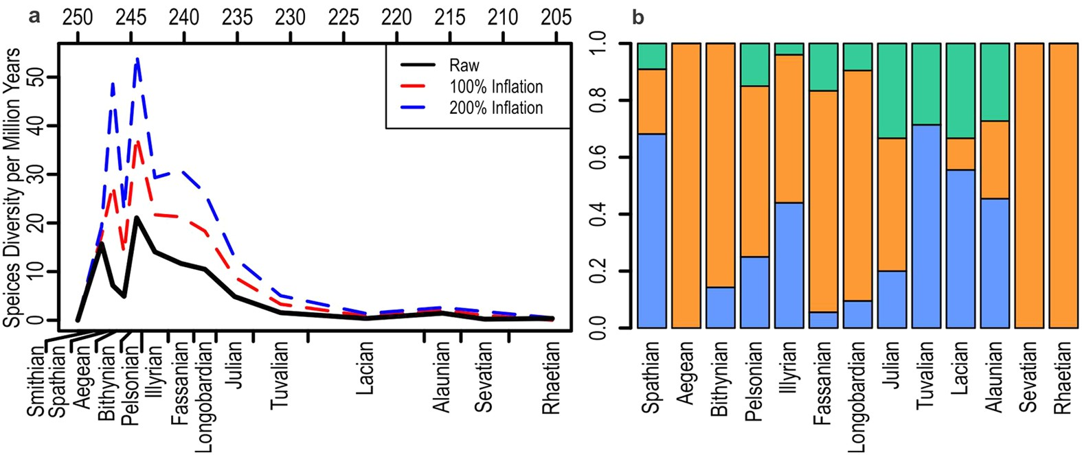 Taxonomic diversity of Triassic marine reptiles. (a) Species diversity per million years. (b) Clade proportions through the Triassic. Line colors in (a) black, raw data; red, data with inflated stratigraphic ranges where half of the species are assumed to have their records missing from the substages before and after the actual record; blue, data with extremely inflated stratigraphic ranges where all species are assumed to be missing their records from the substages before and after the actual record. Blue line is unlikely given that 94.4% of about 150 species examined are only known from one substage, suggesting that species turnover was fast among marine reptiles. Fill colors in (b) blue, Ichthyosauromorpha; orange, Sauropterygia + Saurosphargidae; green, others. See Supplementary Tables S2 and S3 for data.